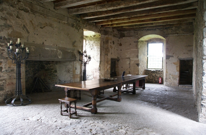 Elcho Castle, Elcho, Perth and Kinross, Scotland - great hall